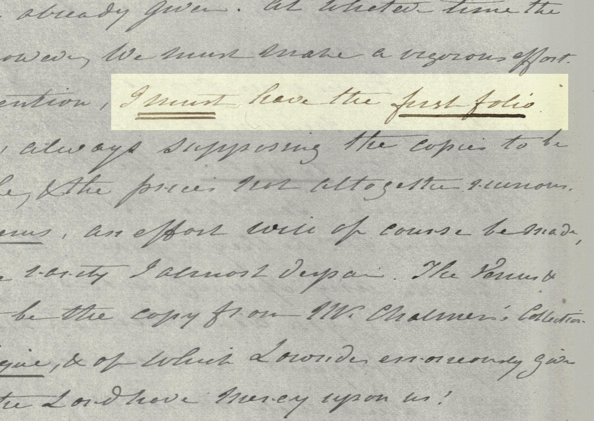 Excerpt of a letter from Thomas Pennant Barton to Thomas Rodd, in which Barton expresses his desire to purchase the First Folio then offered for sale through the auction of the late Benjamin Heywood Bright's library. The letter is dated May 15th, 1844 and is in the possession of the Boston Public Library (call no. MS f G.59.2)